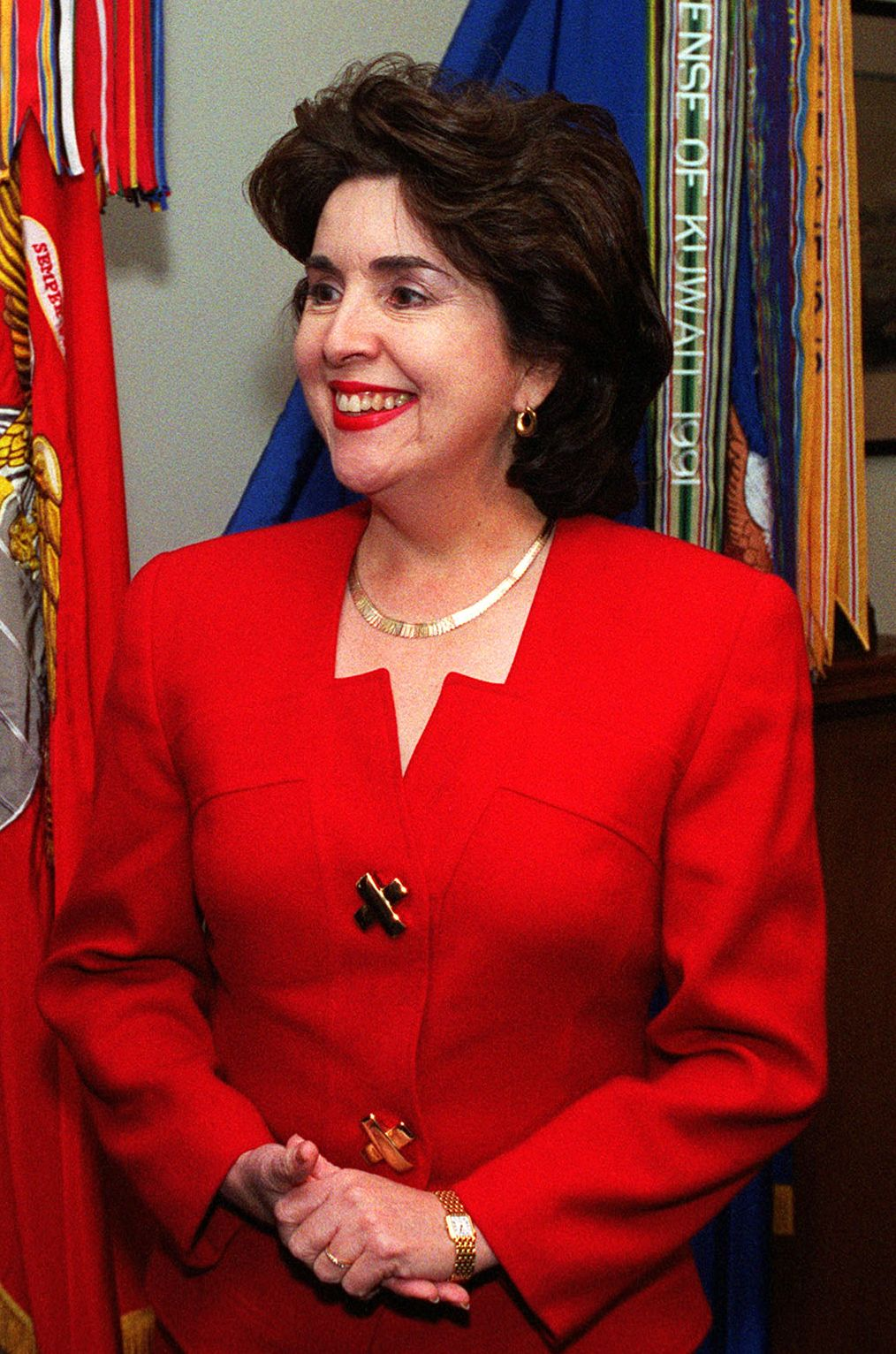 Secretary of Defense Donald H. Rumsfeld (left) talks informally with Puerto Rican Governor Sila Calderon before a meeting in the Pentagon. Calderon and her delegation from Puerto Rico are meeting with Rumsfeld to discuss the issue of Navy training on Vieques Island.